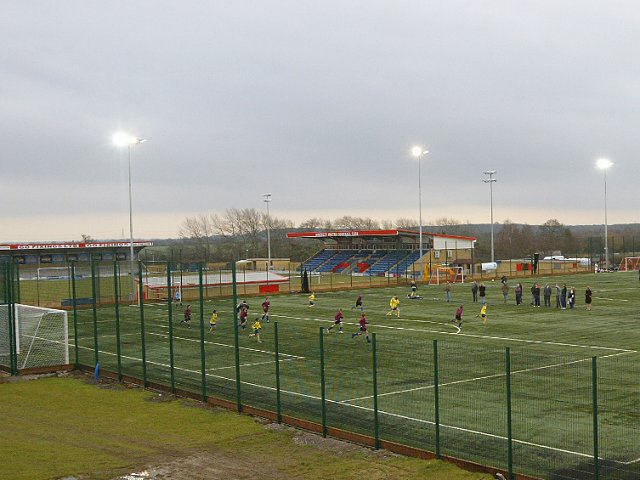 the All Weather full size floodlit pitch at Hinckley United